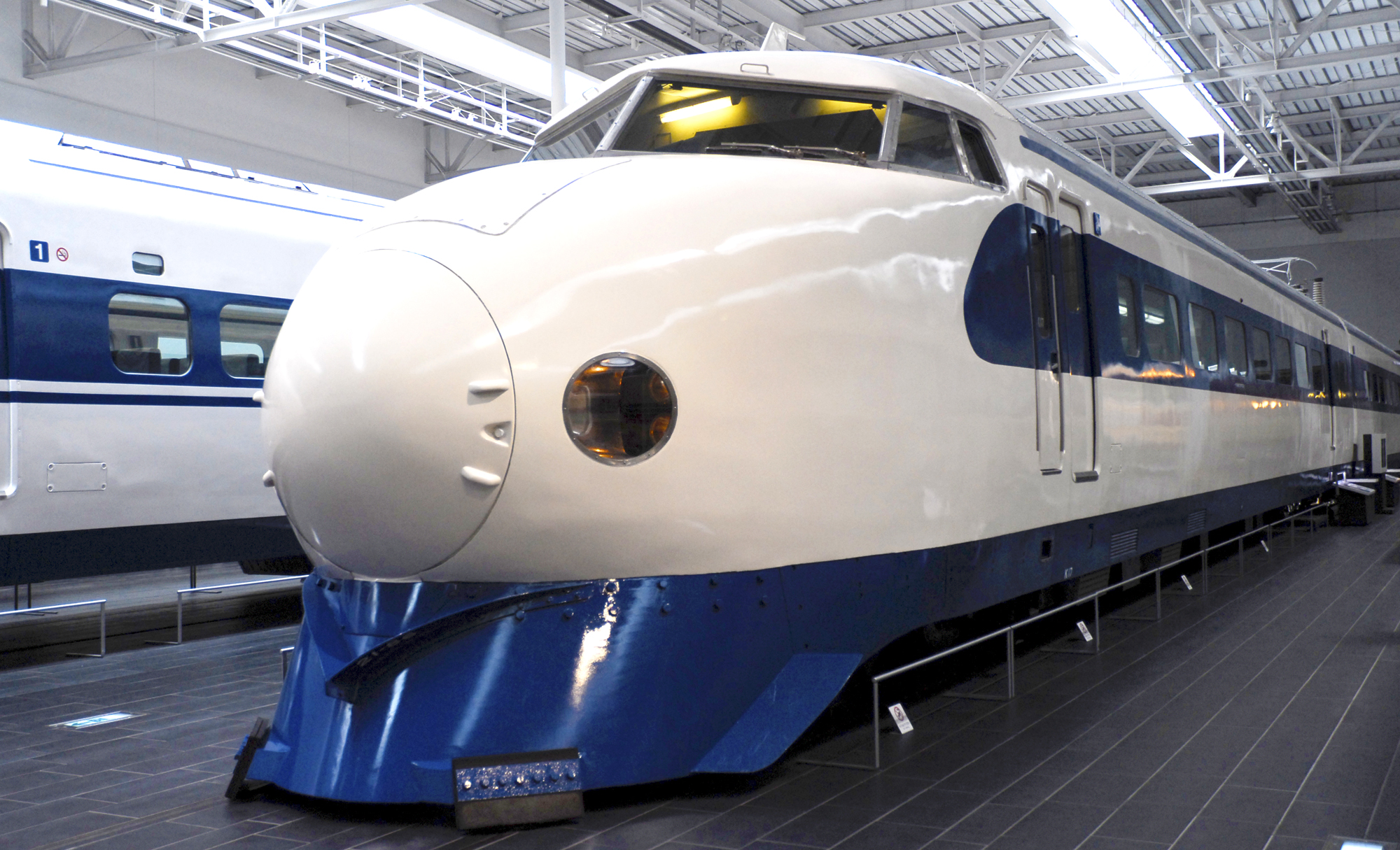 Preserved 0 series Shinkansen driving car 21-86 at the SCMaglev and Railway Park in Nagoya, Japan